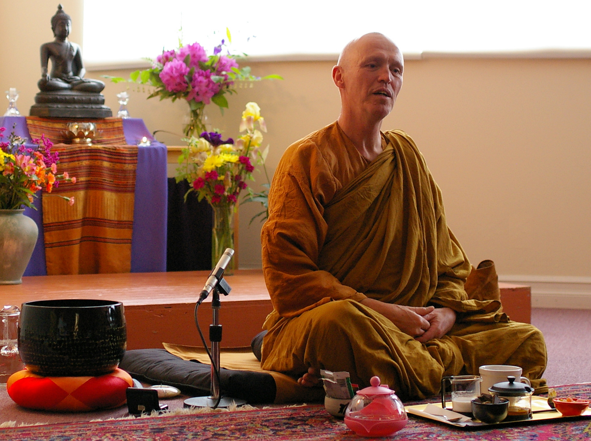 Ajahn Sucitto Talk